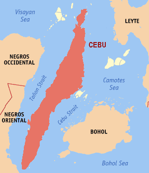 Locator map of Cebu Island, Philippines